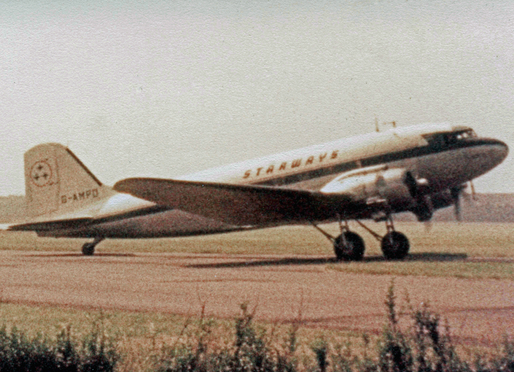 Douglas C-47B Dakota of Starways at Manchester Airport in 1953